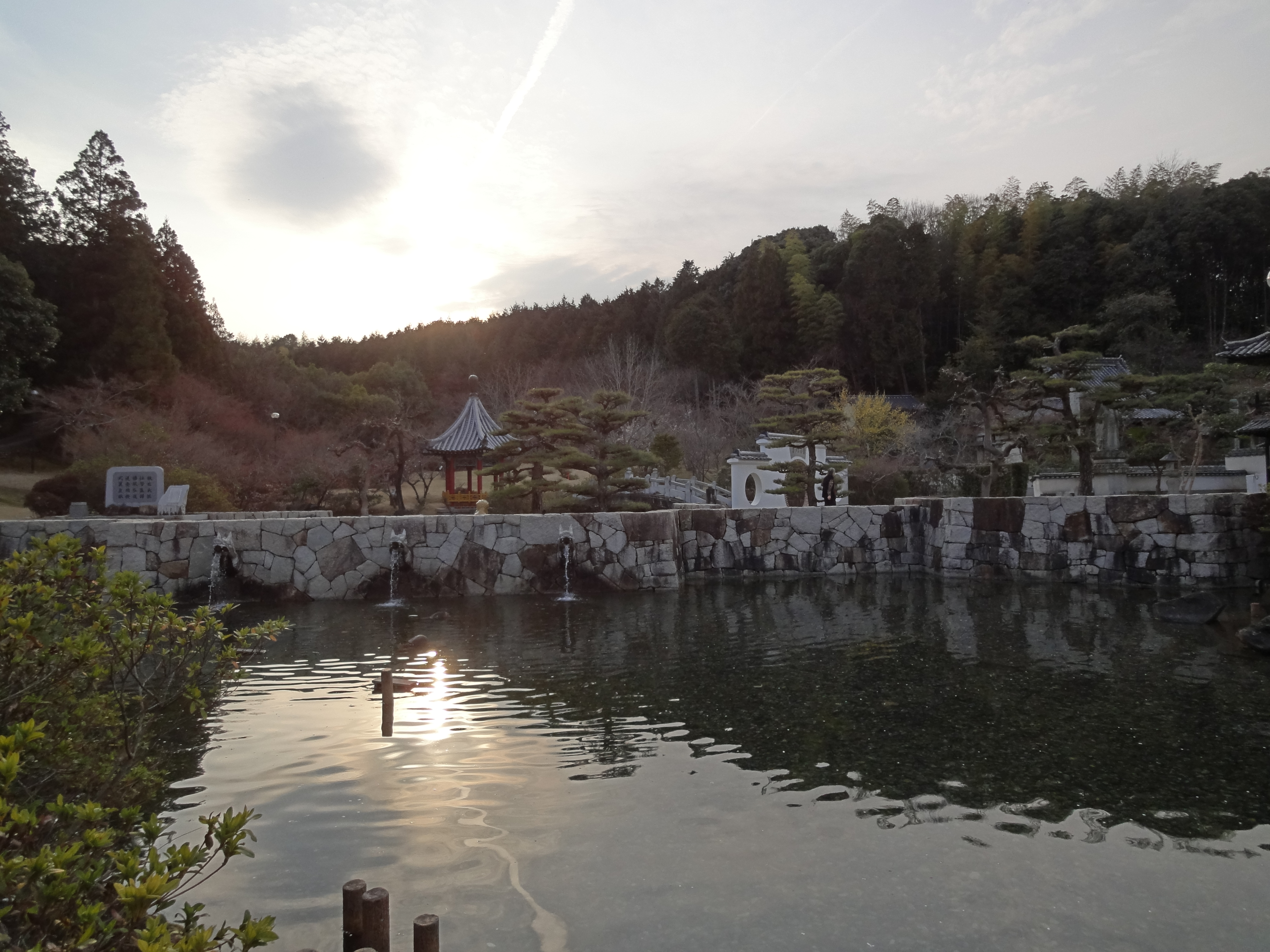 Chinese Garden in Makibi Park, Mabi, Kurashiki, Okayama pref., Japan